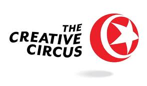 Creative Circus Logo